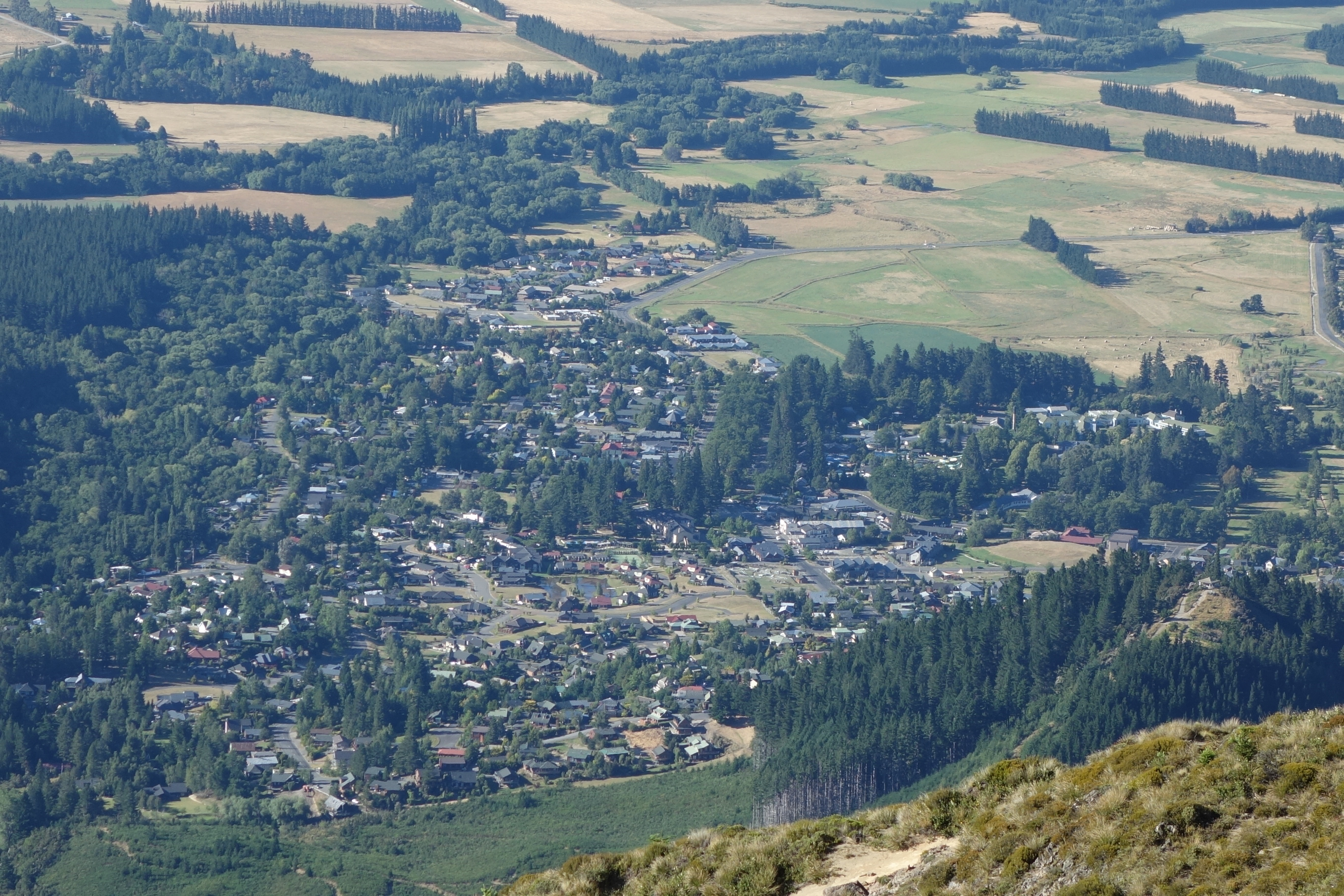 Hanmer Springs